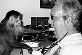 A monkey trained by HelpingHands assisting a quadriplegic in his daily activities.